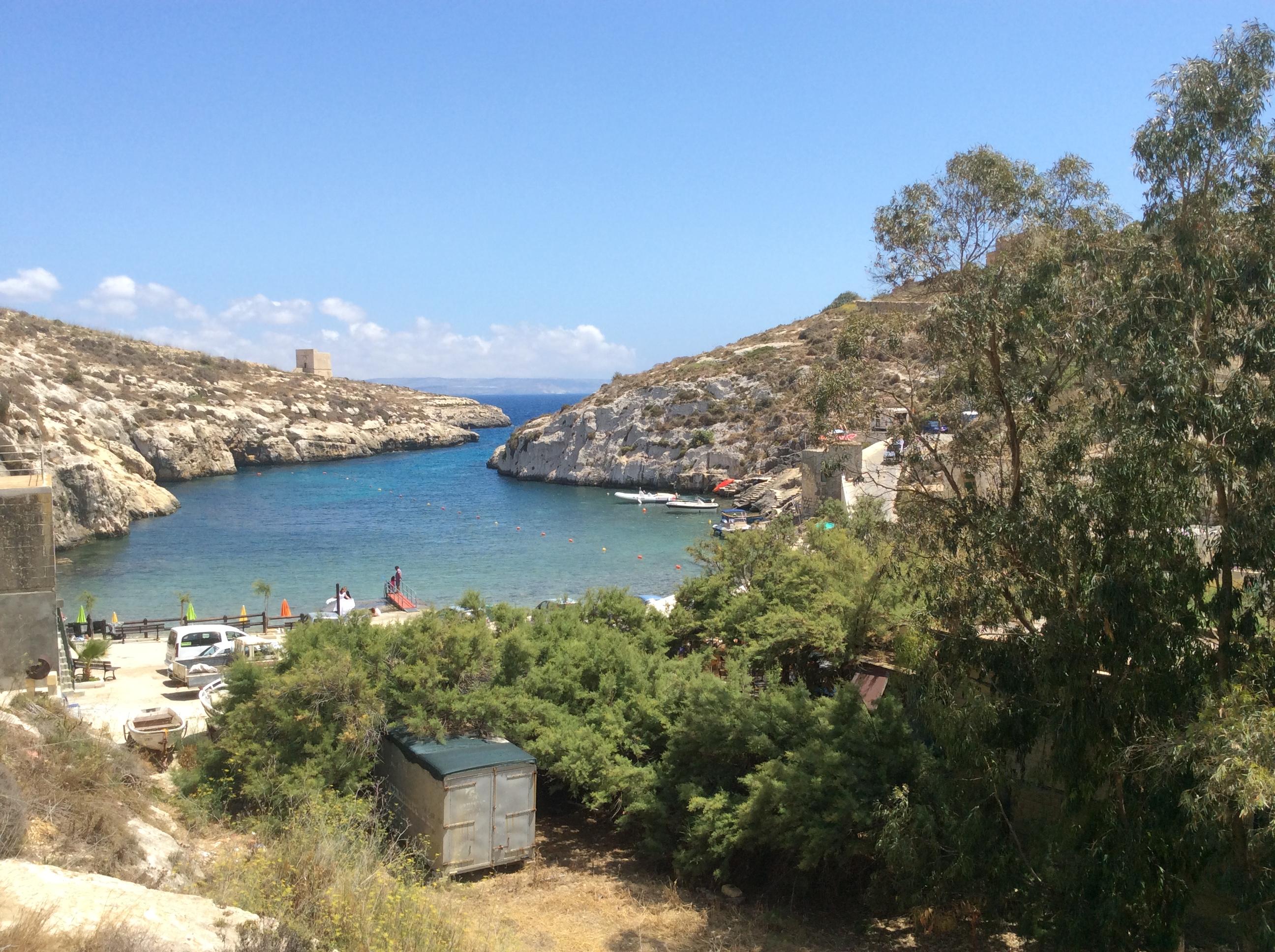 Mgarr ix-Xini Tower and bay